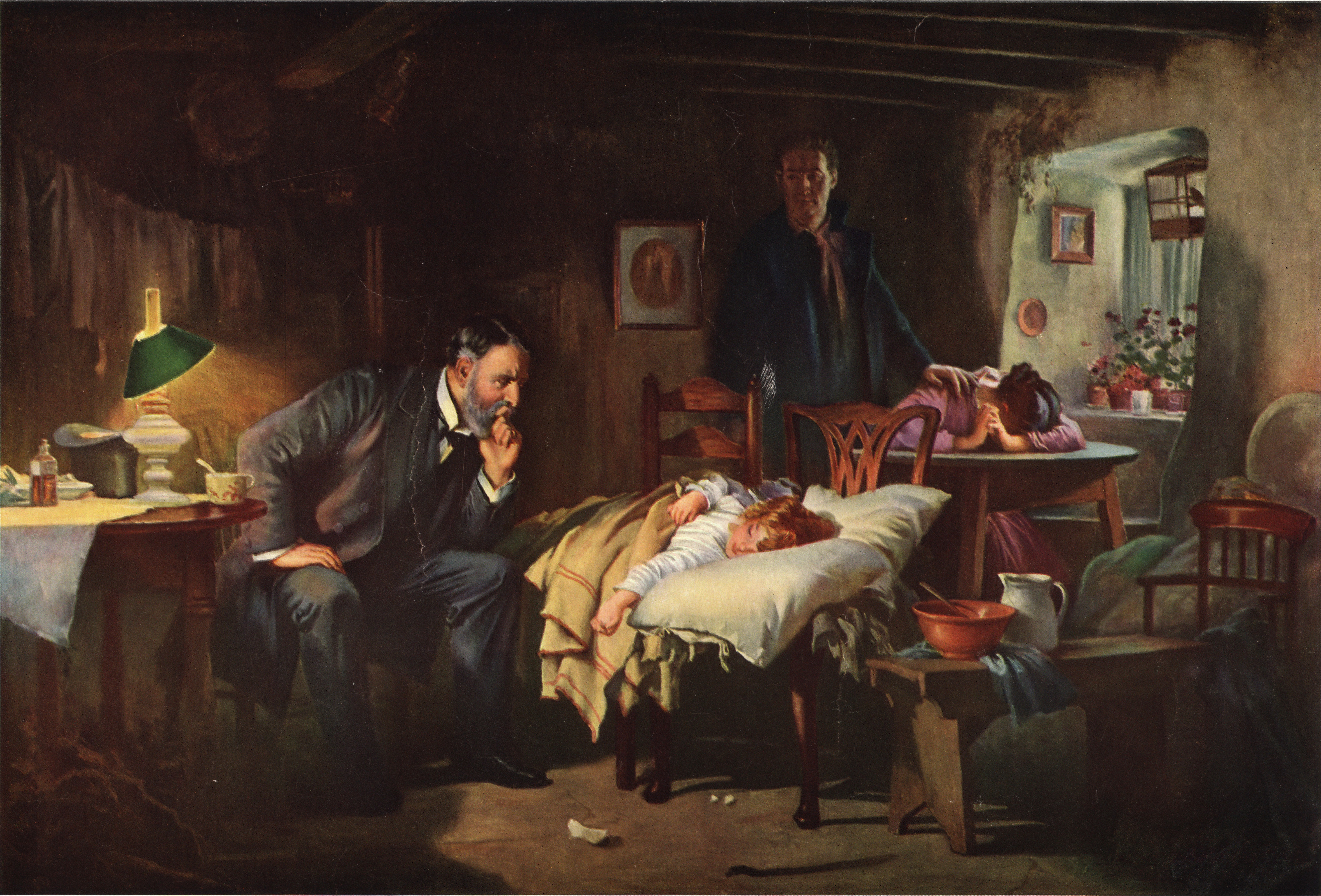 Reproduction of Luke Fildes' painting The Doctor, by Joseph Tomanek